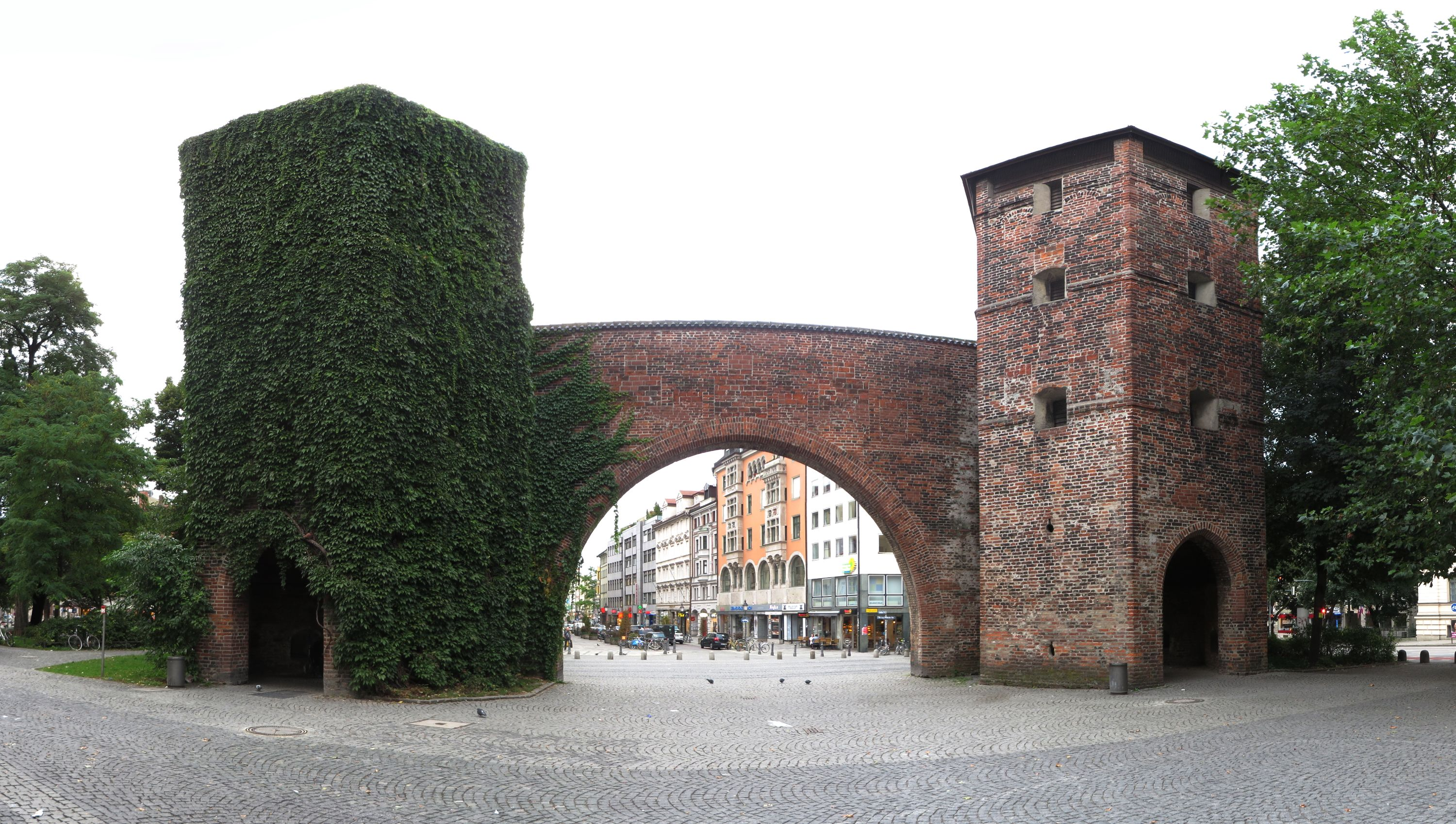 The Sendlinger Tor in Munich, seen from the Sendlinger Tor Platz. This is a photograph of an architectural monument.